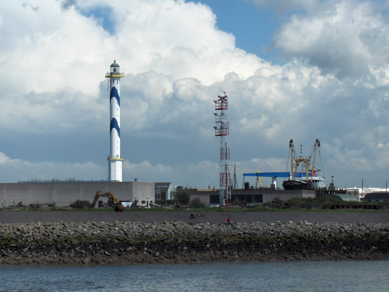 The lighthouse, commonly called "Lange Nelle", Oostende, Belgium.